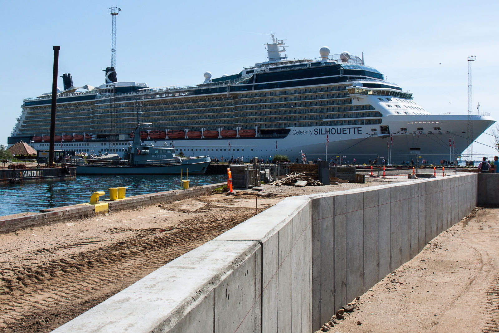 5. June 2015 – Celebrity SILHOUETTE – Cruise Ship visiting Fredericia, Denmark.